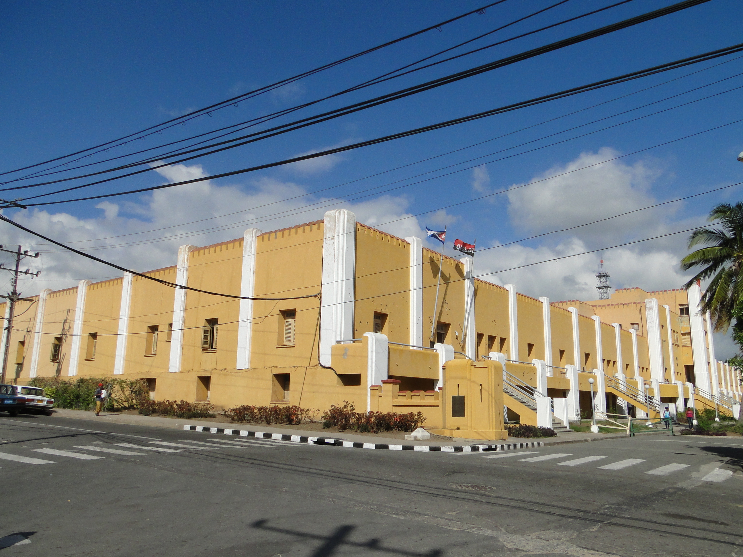 Historic Moncada Barracks — in Santiago de Cuba, Cuba.